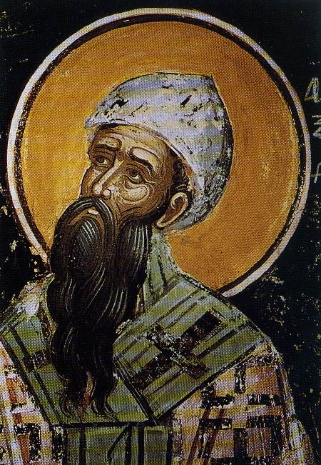 Rousanu